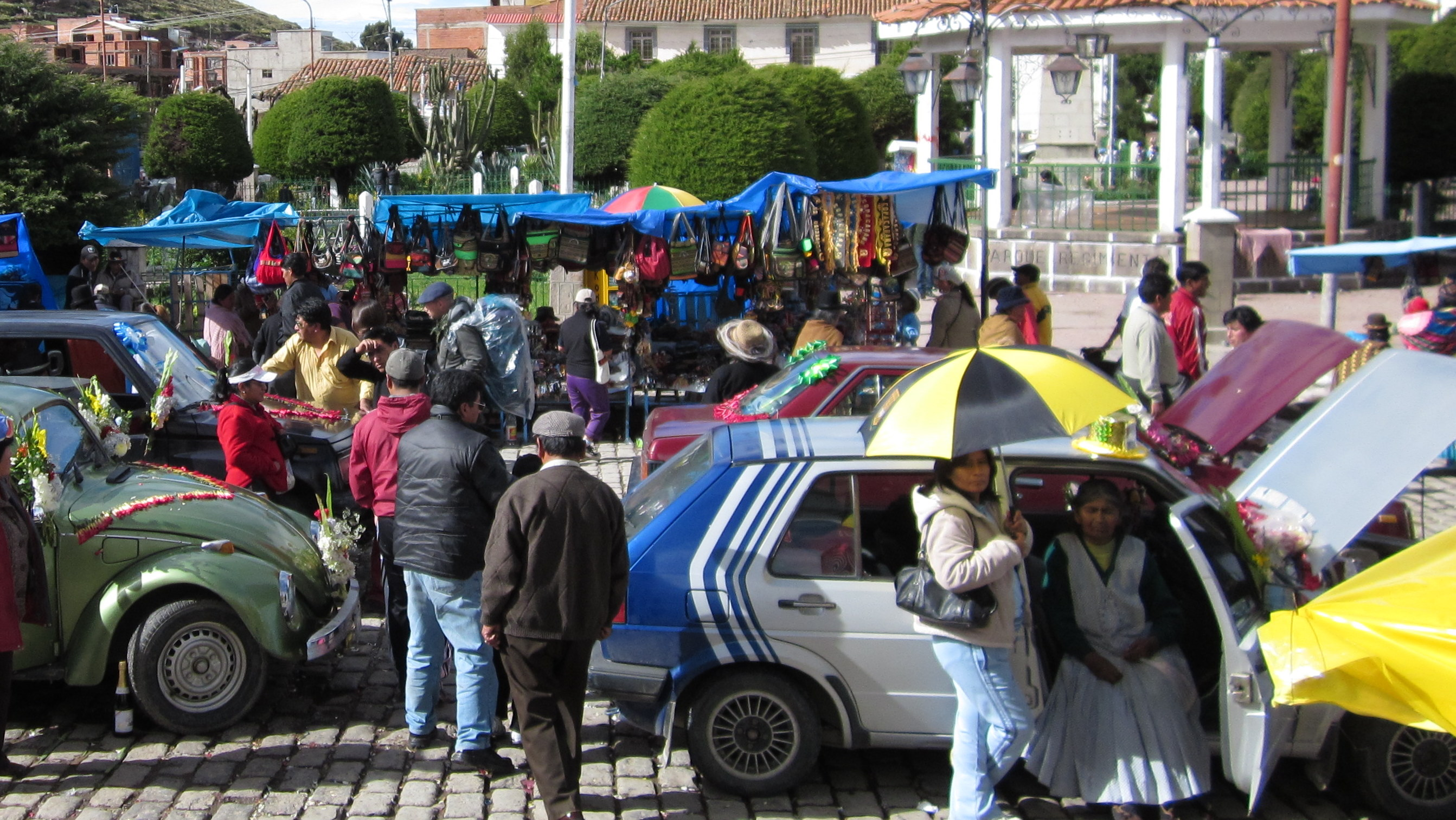 Blessing of cars in Copacabana, Bolivia